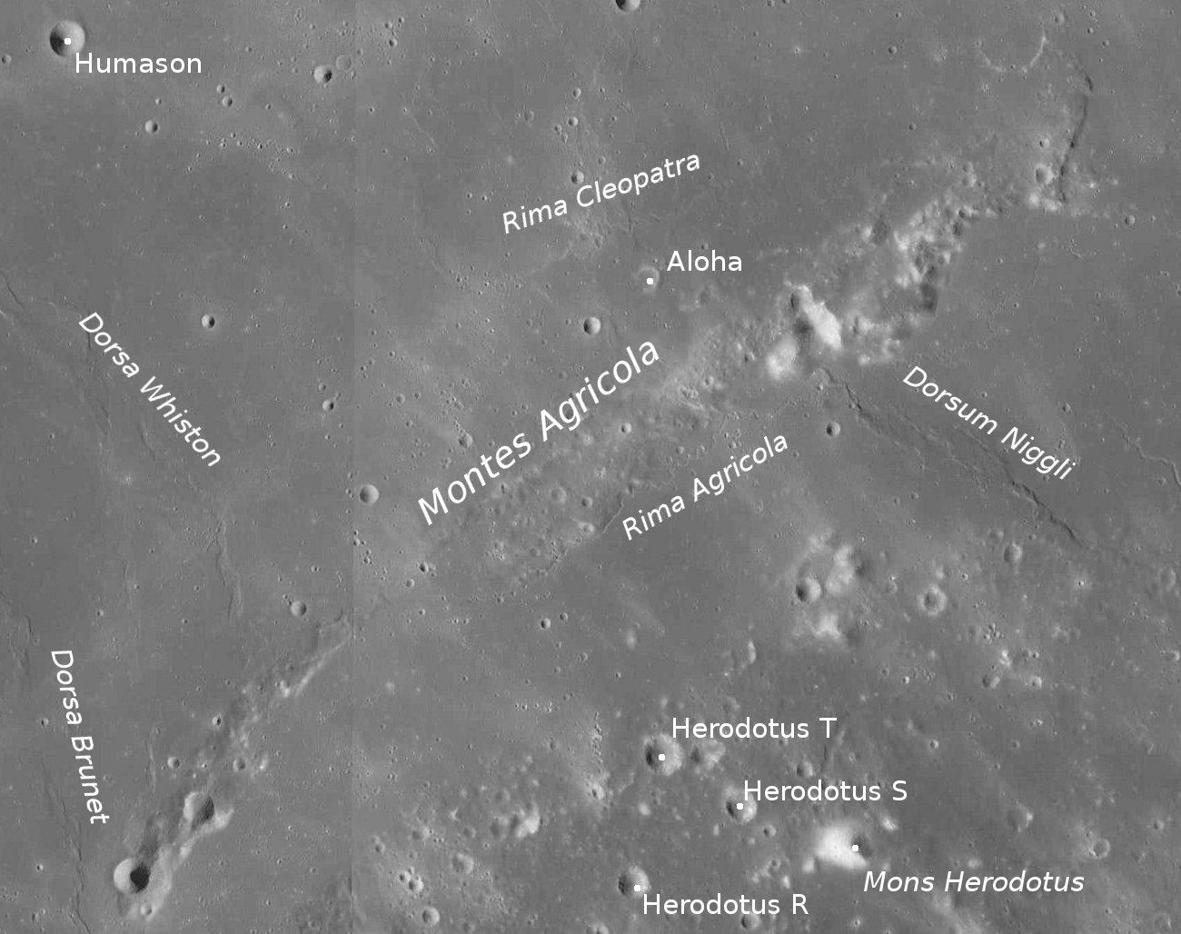 Montes Agricola (detail of LRO - WAC global moon mosaic)